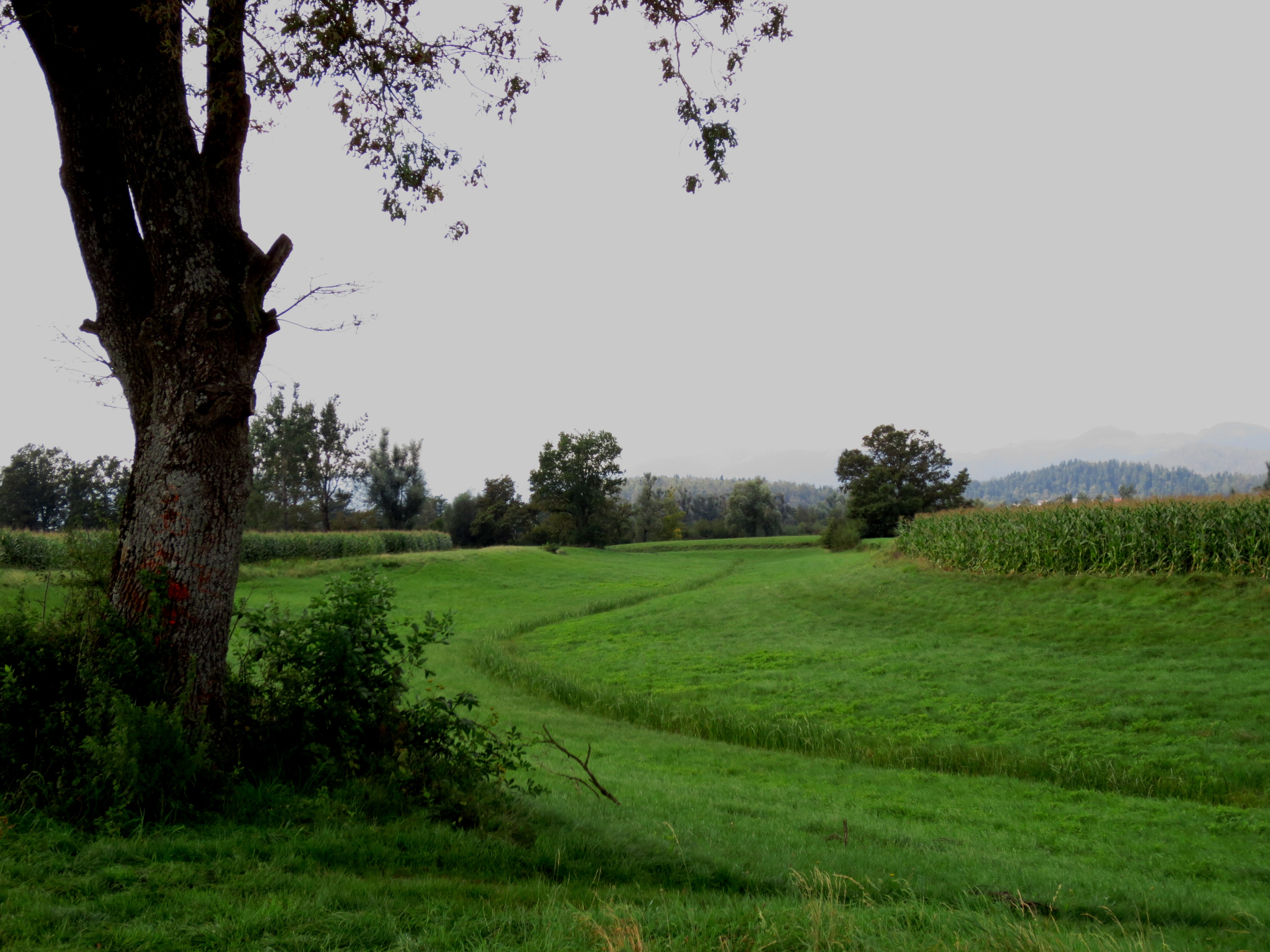 Old Ljubljanica channel on Ljubljana Marshes